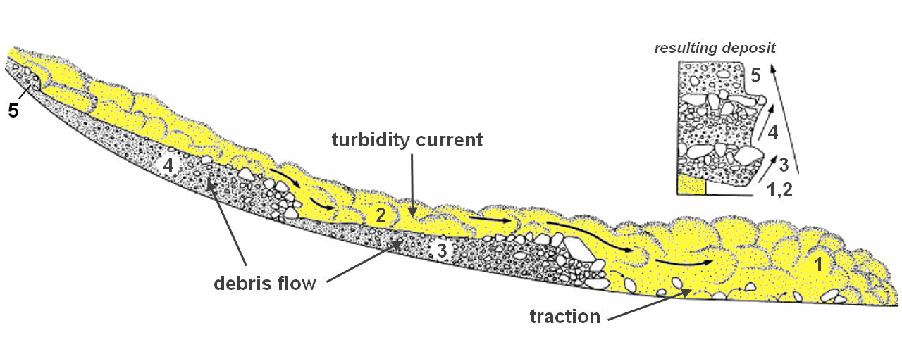 Diagram showing debris flow, turbidity current and traction processes operating in a sediment gravity flow. Modified from Young K. Sohn (2000), Depositional Processes of Submarine Debris Flows in the Miocene Fan Deltas, Pohang Basin, SE Korea with Special Reference to Flow Transformation, Journal Sedimentary Research, v. 70, p. 491-503.